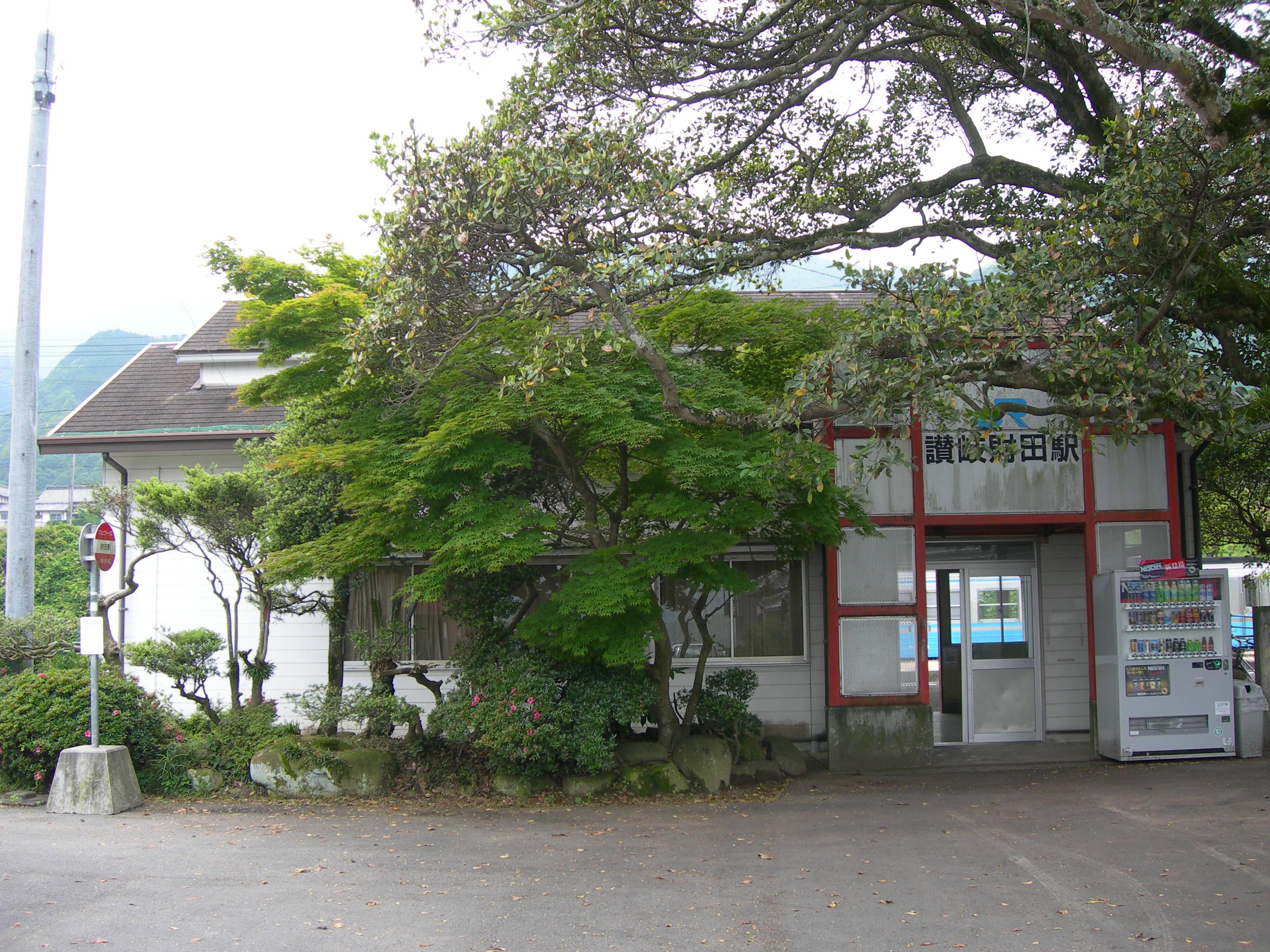 Shikoku Railway Dosan Line sanuki-saida Station